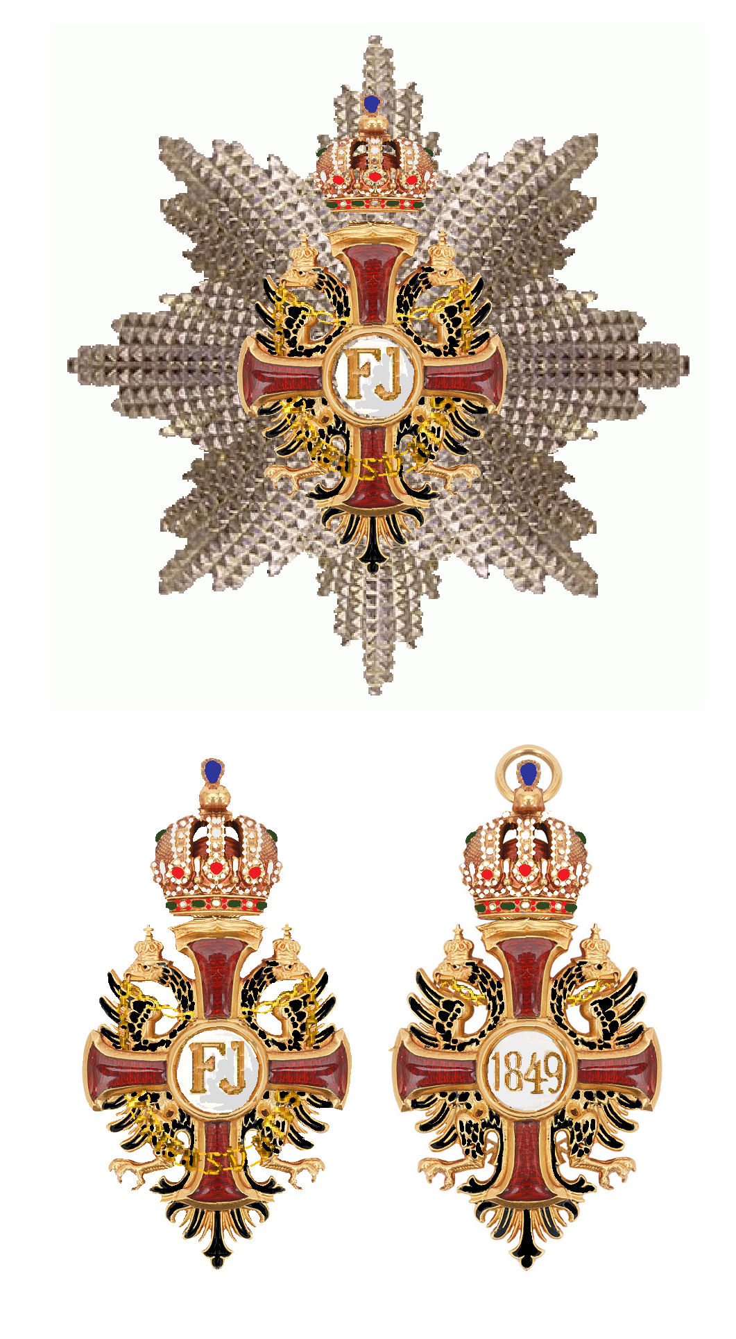 Star and grand cross of the Franz Joseph Order of Austria Franz Josephs-Orden